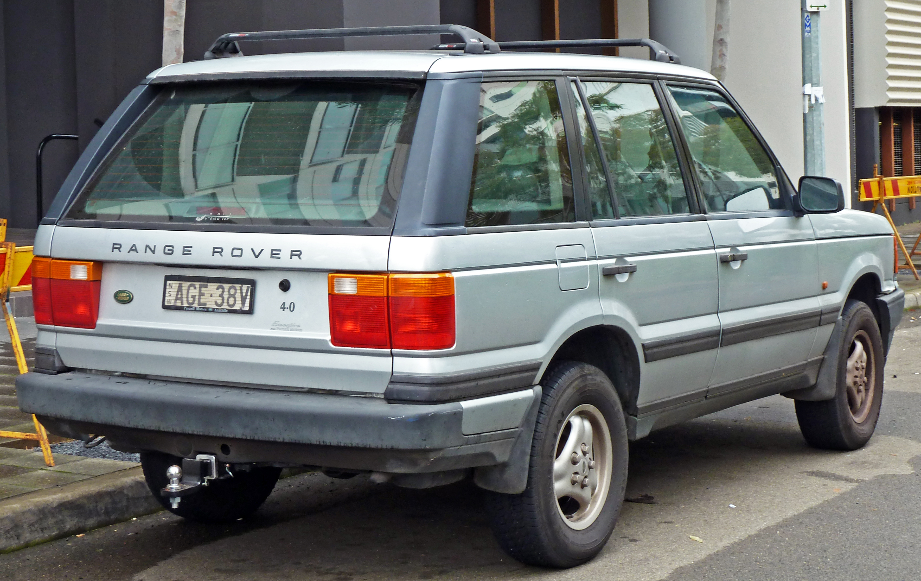 1998 Land Rover Range Rover (P38A) 4.0 SE wagon. Photographed in Zetland, New South Wales, Australia.